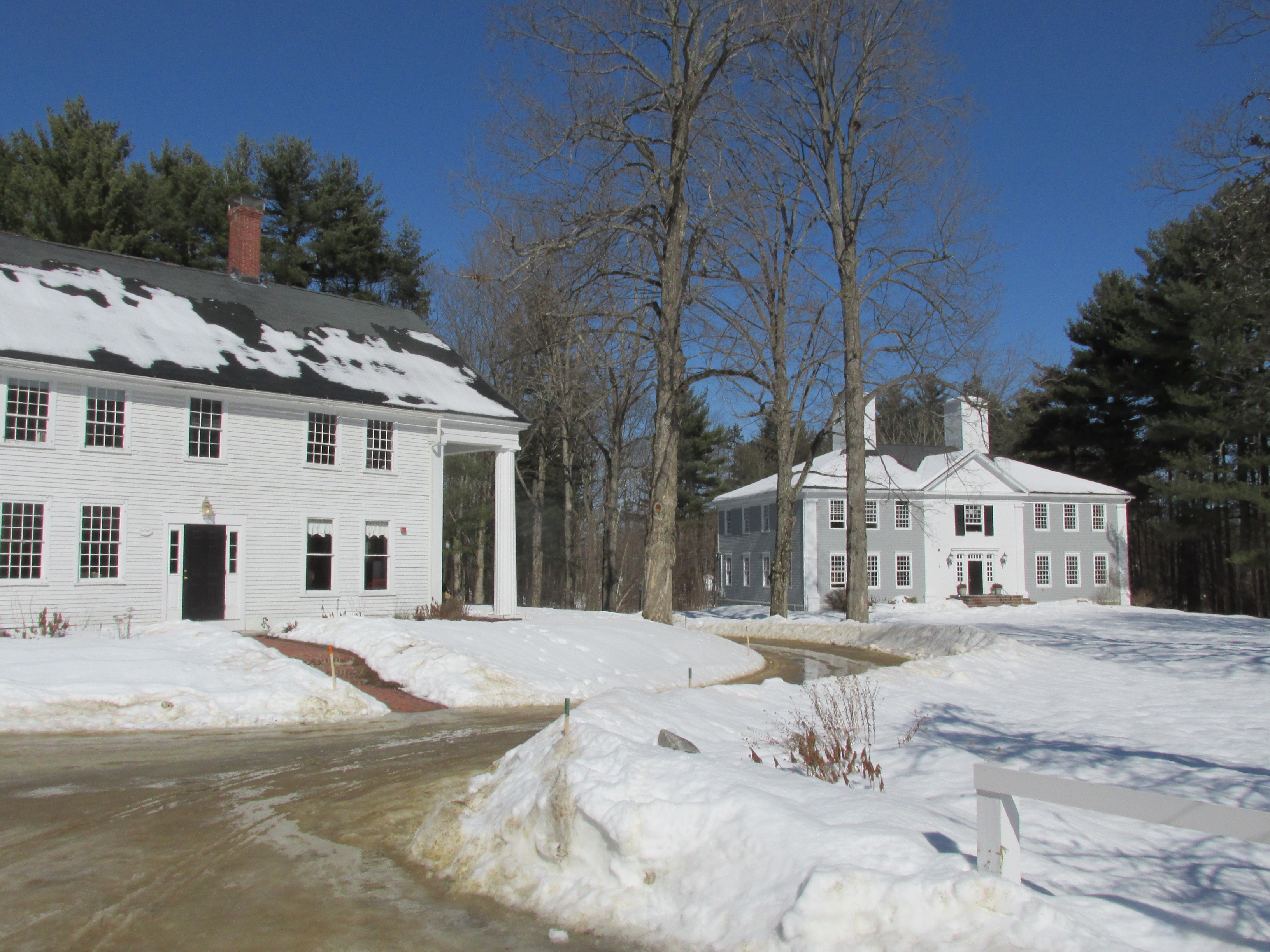 Thomas More College of Liberal Arts in Winter, Merrimack New Hampshire